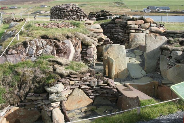 Relocated burnt mound from Cruester at Bressay Heritage Centre